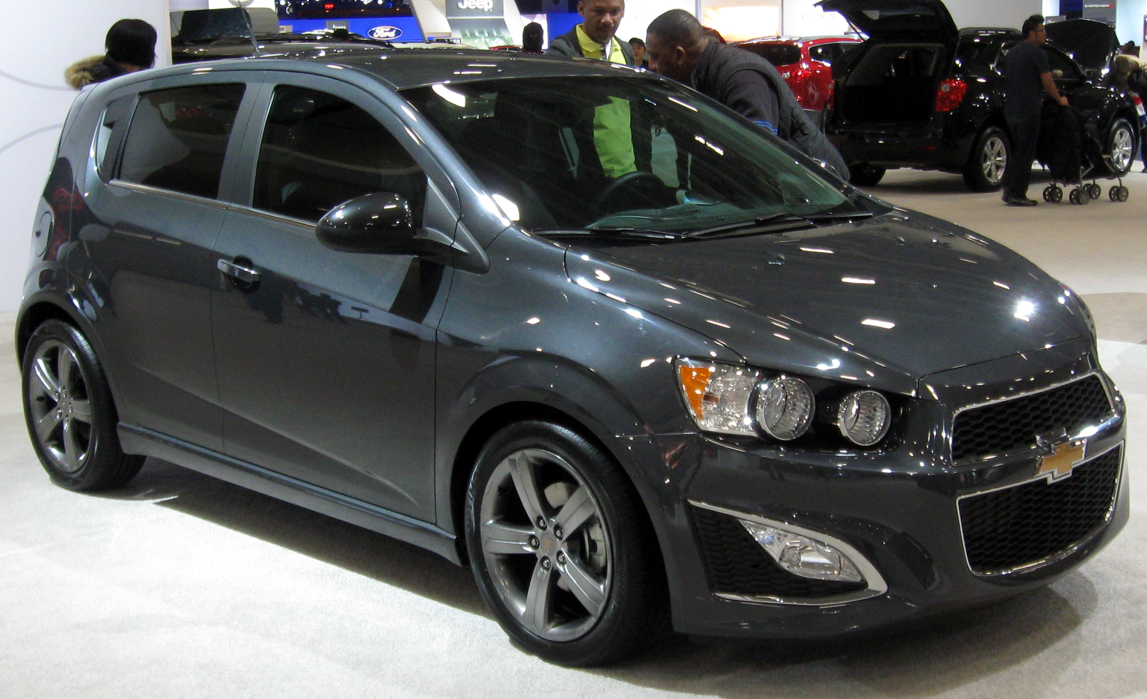 2013 Chevrolet Sonic photographed in Washington, D.C., USA.